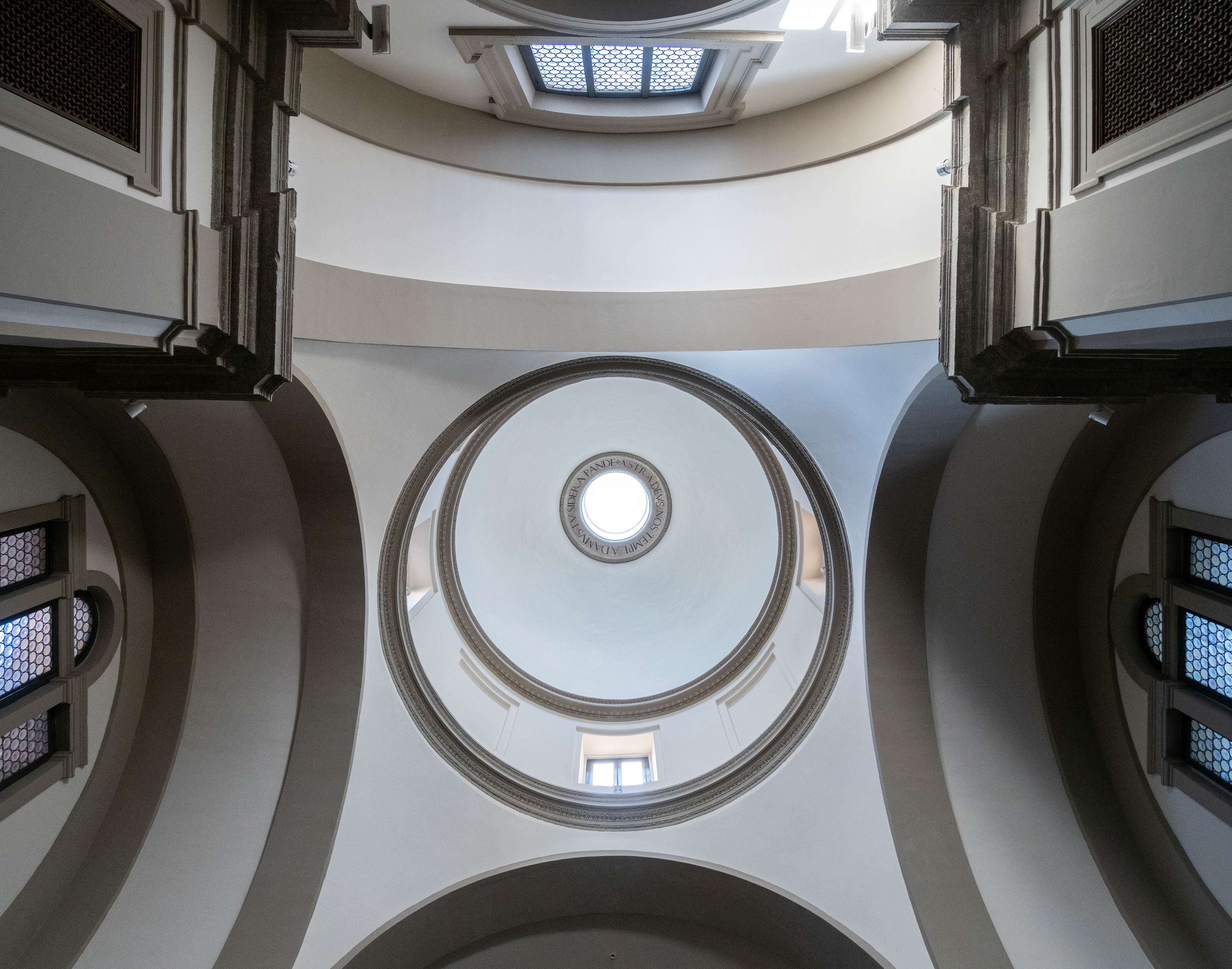 Cupola in the church Sant' Eligio degli Orefici in Rome